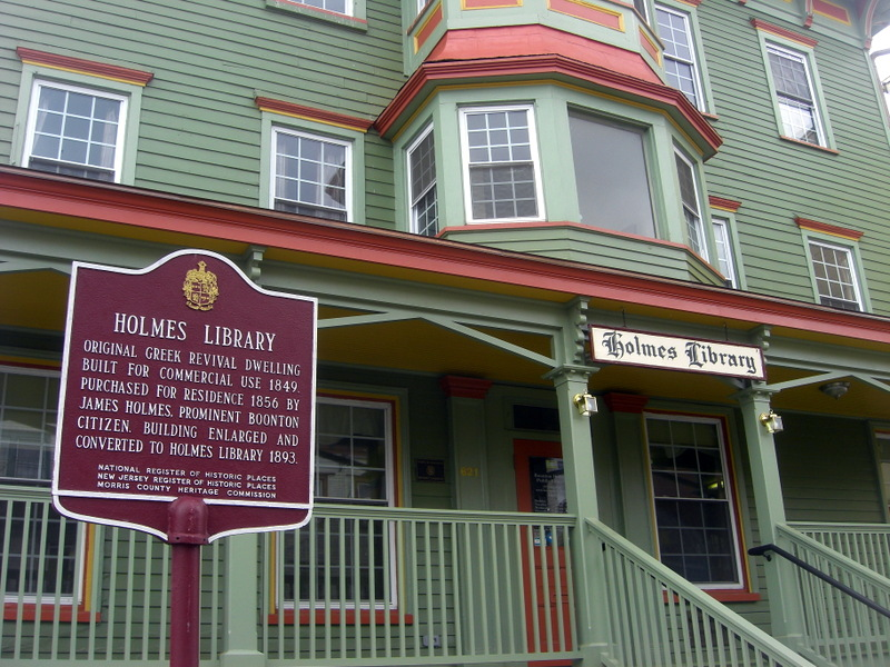 Boonton Public Library This photo shows the library in Boonton Town NJ.